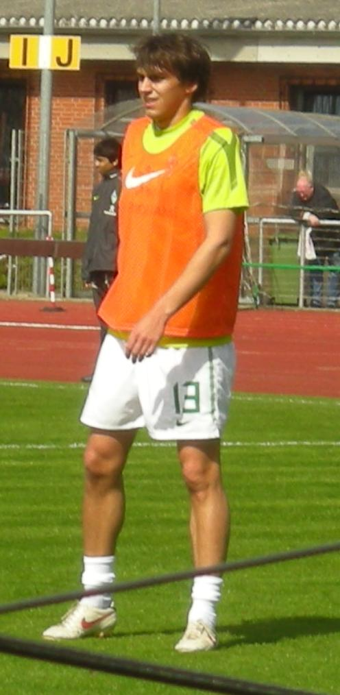 Alexander Hessel before the game against FC Carl Zeiss Jena